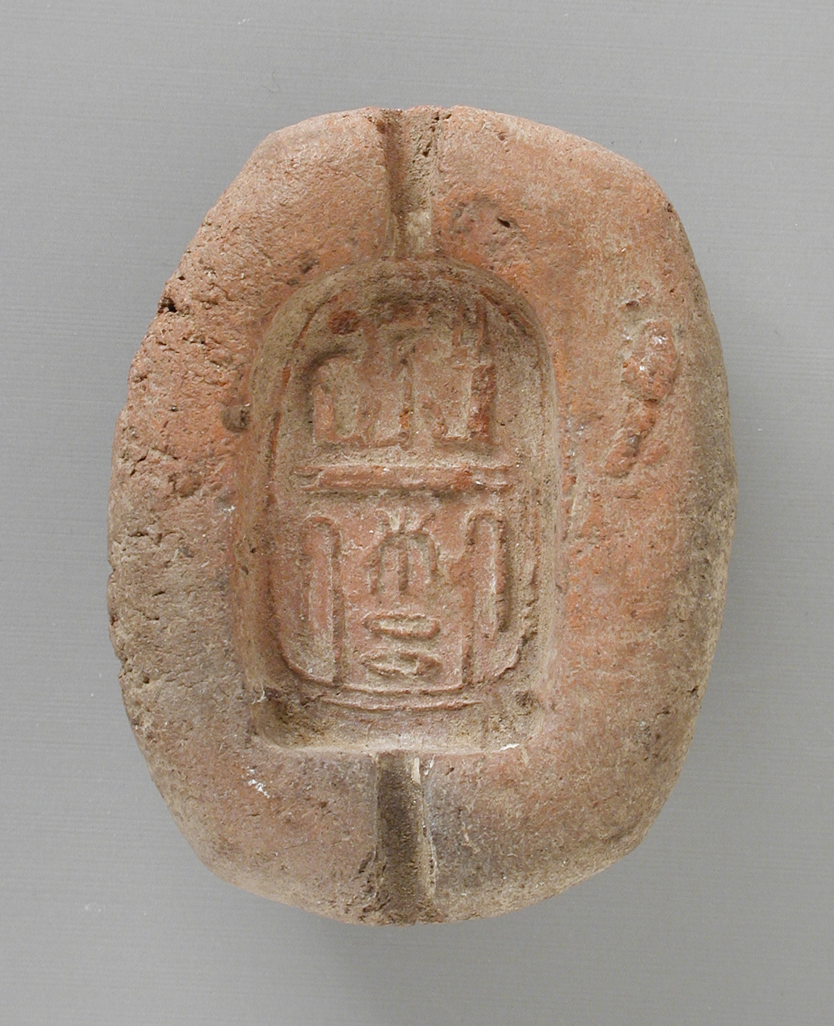 Tools and Equipment; molds Terracotta Overall: 1 5/8 x 1 1/4 in. (4.13 x 3.18 cm); Imprint: 1 x 5/8 in. (2.54 x 1.59 cm) Gift of Jerome F. Snyder (M.80.202.324) Egyptian Art